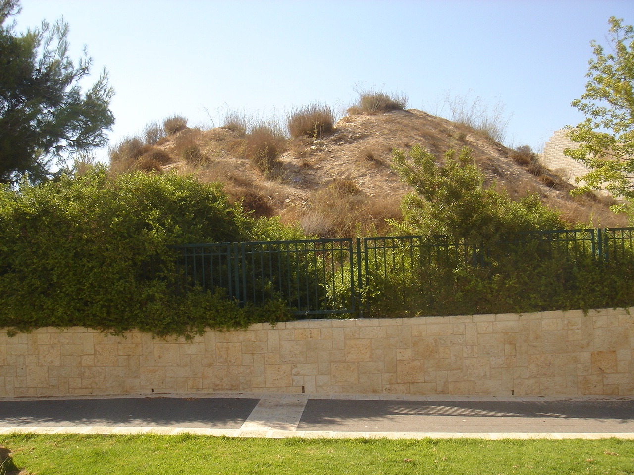 Tumulus 2, Jerusalem. W.F. Albright's excavation trench is still visible. (August, 2006)